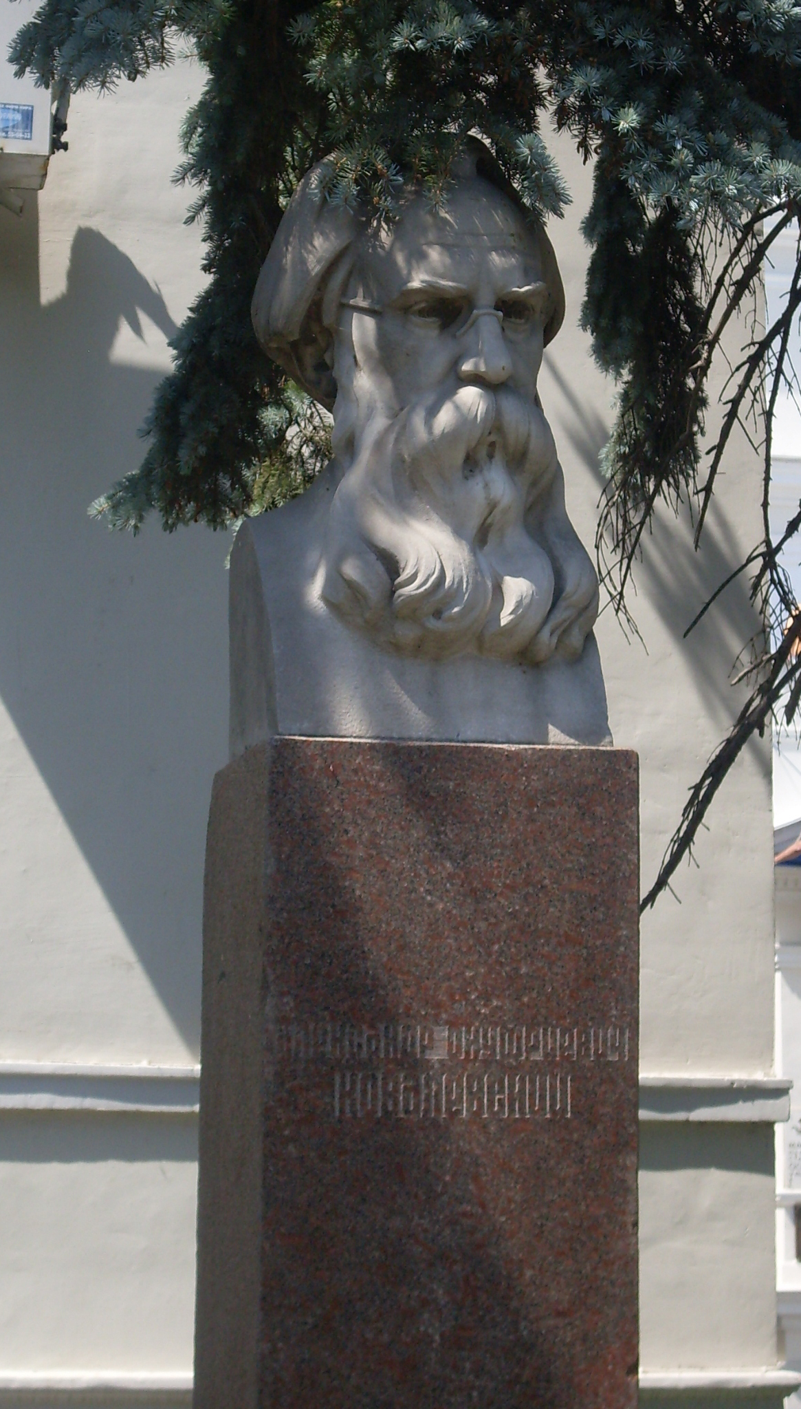 Monument to Alexander Kovalevsky in Sevastopol